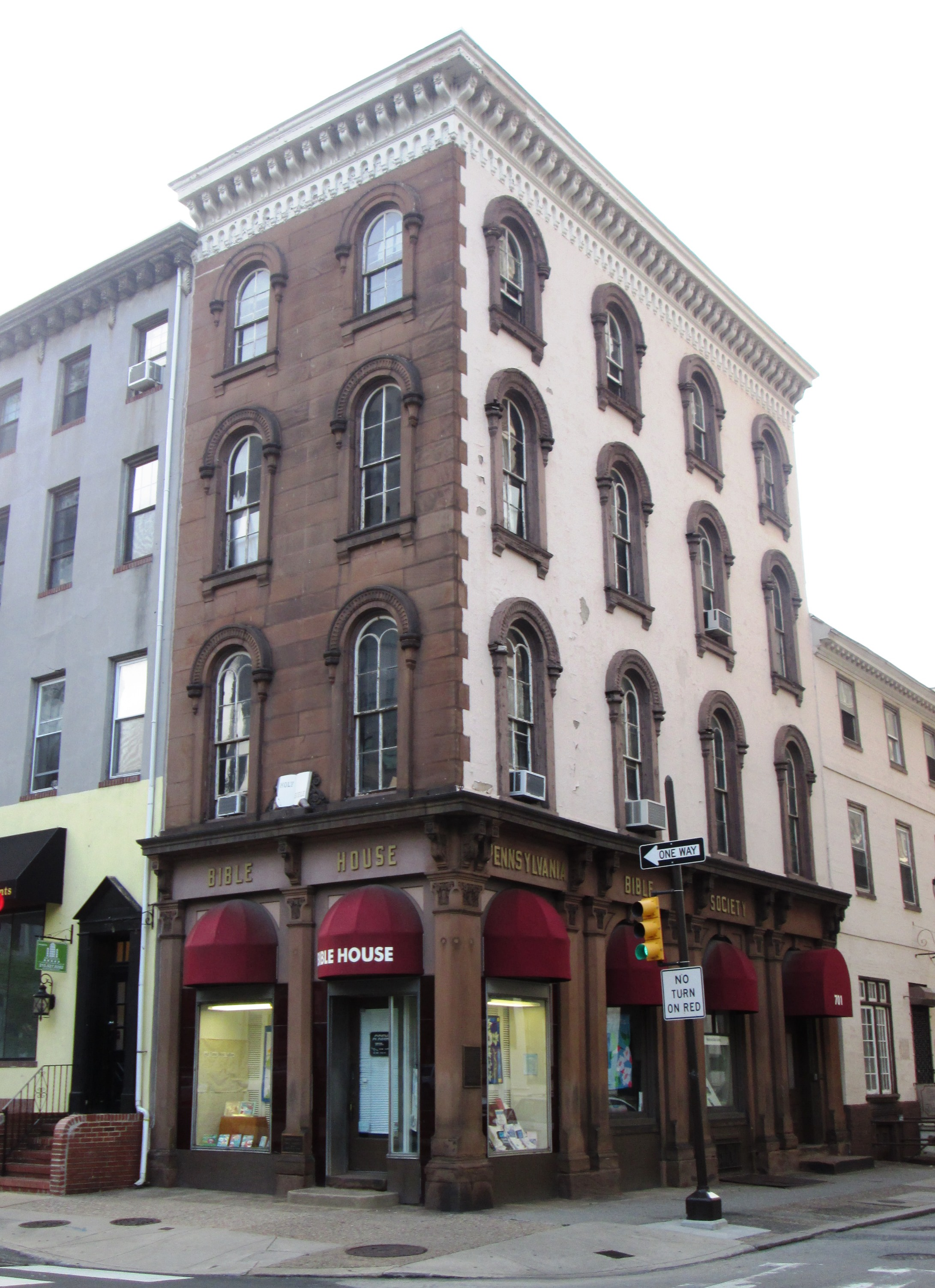 The Pennsylvania Bible Society located in Bible House at 701 Walnut Street at the corner of S. 7th Street, across from Washington Square in the Washington Square West neighborhood of Philadelphia, is the oldest Bible Society in the United States, having been founded in 1808. (Source: "Washington Square" on )